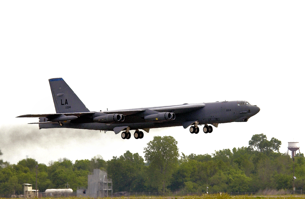 BARKSDALE AIR FORCE BASE, La. -- A B-52 Stratofortress of the 2d Operations Group takes off from here. June 29 marked the bomber's 50th anniversary. (U.S. Air Force photo)